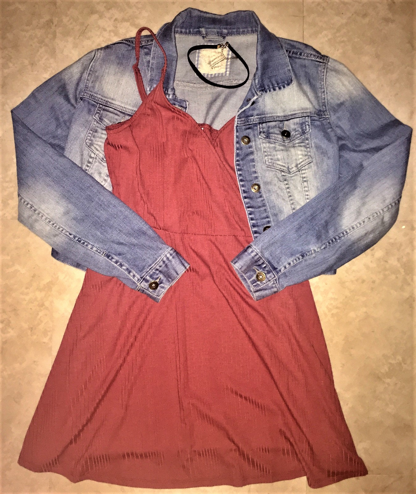 More modernize grunge outfit that is worn today.